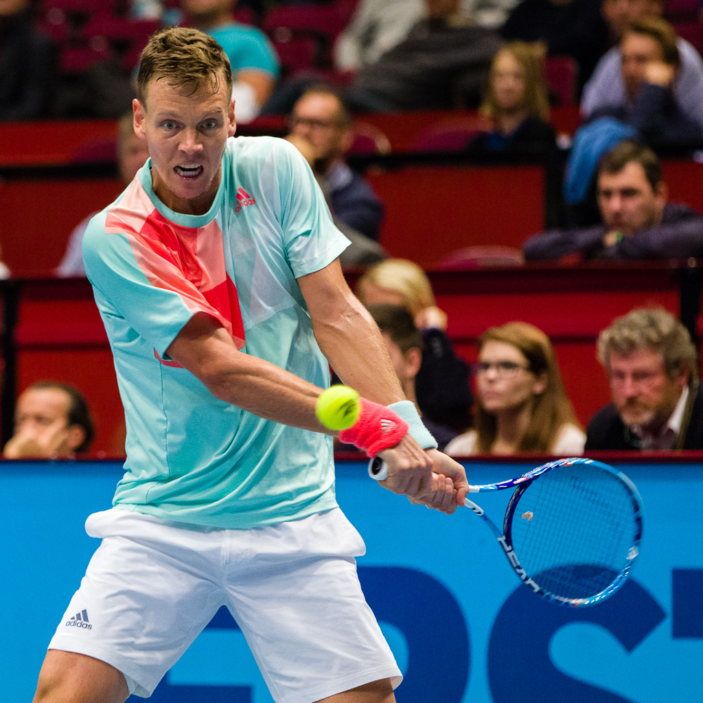 Tomas Berdych (CZE) vs. Nikoloz Basilashvili (GEO) 1st round at Erste Bank Open ATP World Tour 500 in Vienna 24.10.2016